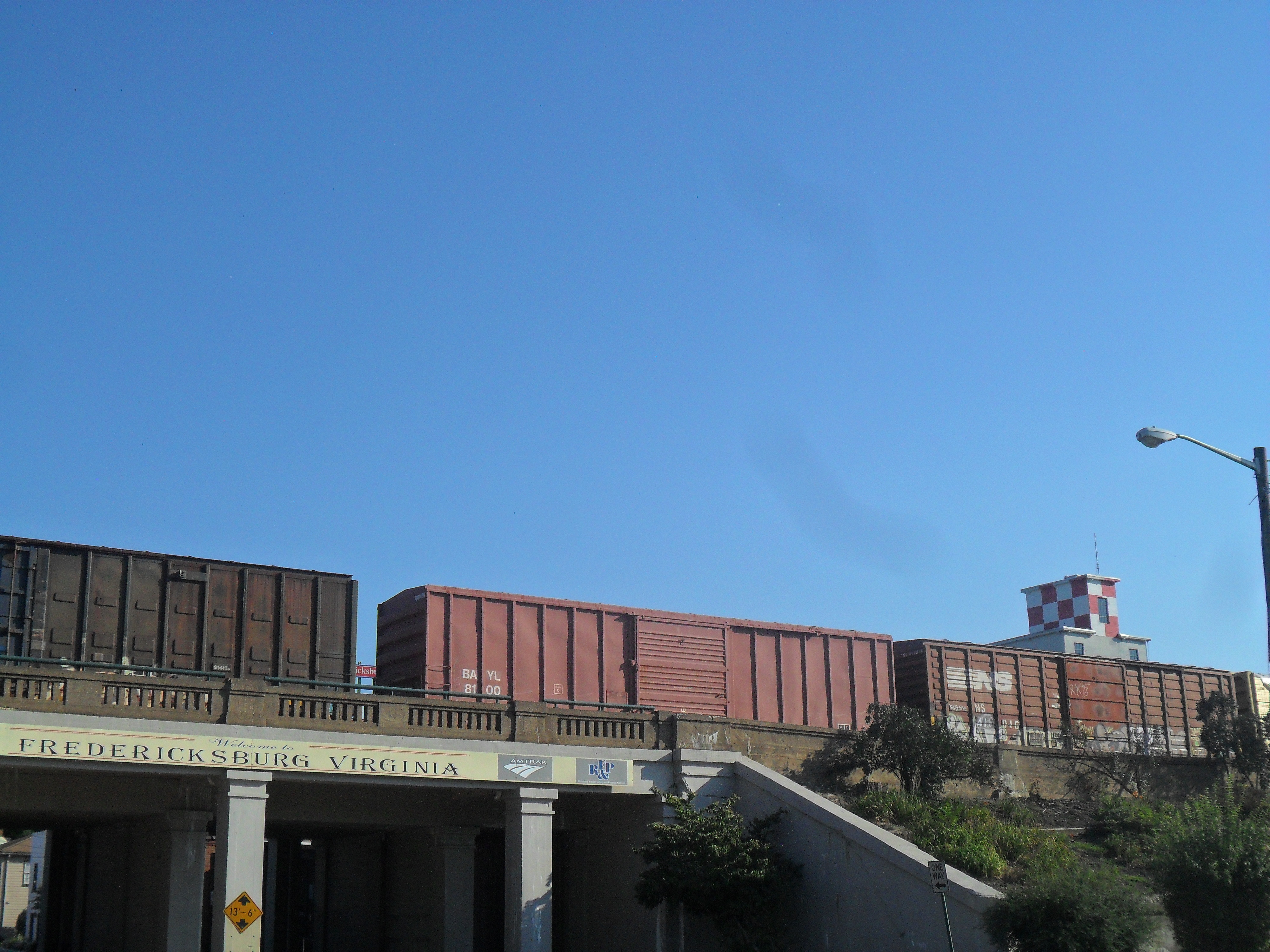 Box car from the Bay Line Railroad rolls over the Princess Anne Street bridge in Fredericksburg, Virginia, August 14, 2015.